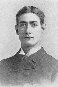 Photograph of Joseph W. Herbert (1863-1923)